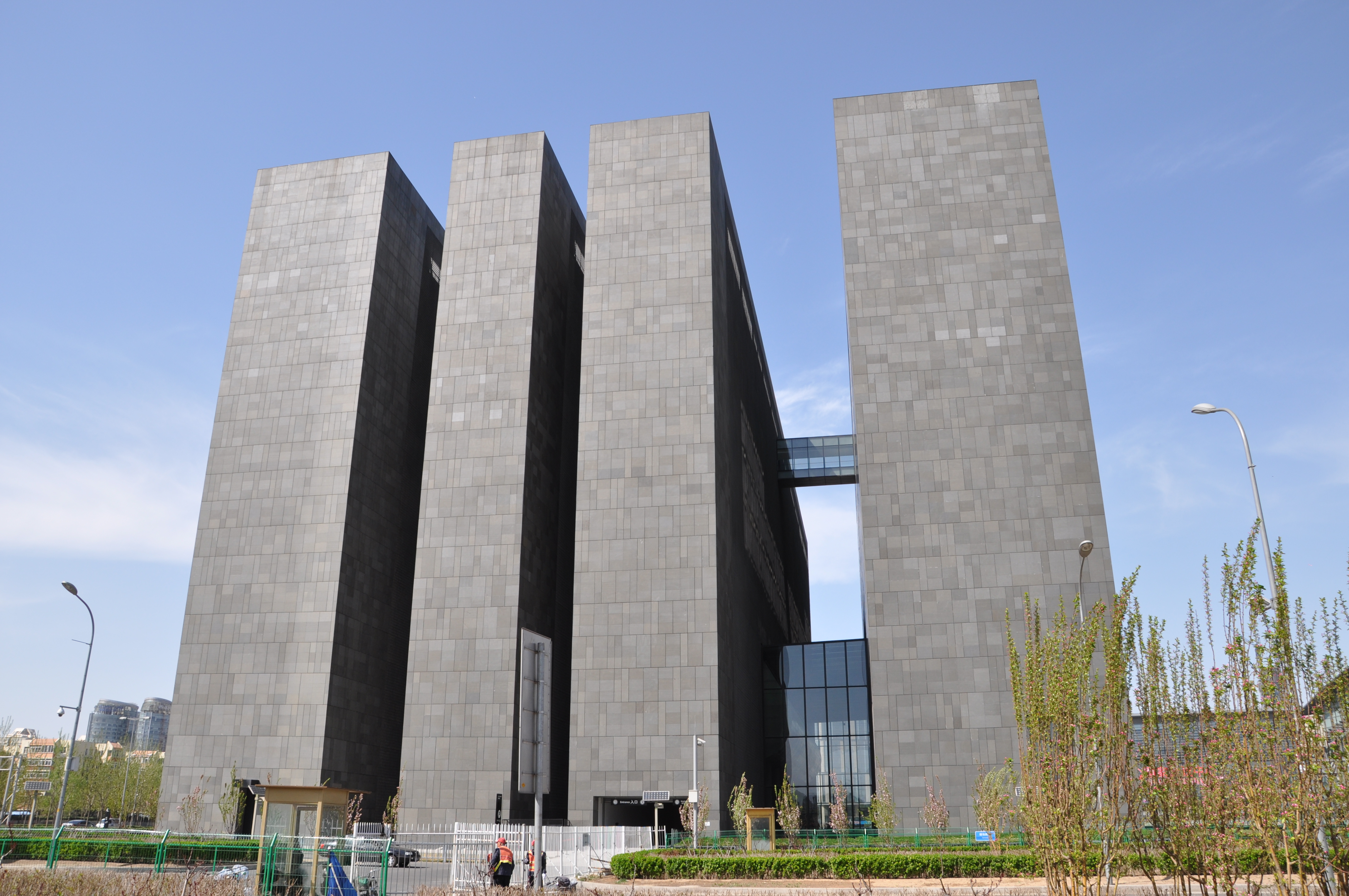 Side view of Digital Beijing Building, designed by Pei Zhu